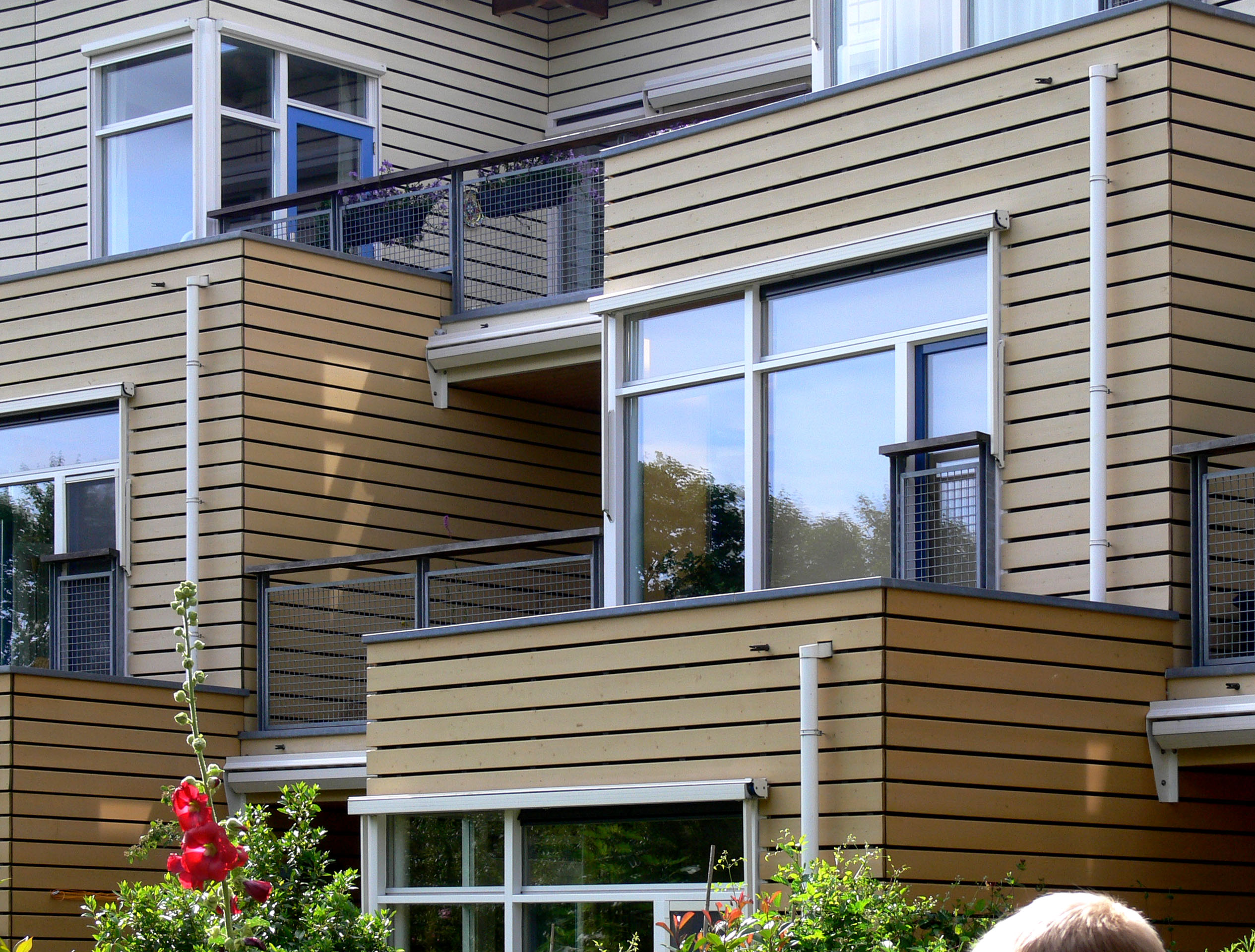 Seniors building (Retirement home), designed by seniors themselves, with the architecte E.V.A. Lanxmeer district (a "green distric" named Lanxmeer, built at Culemborg, The Netherlands), wich is a recent (1994-2009) district (semi-public eco-building) of approximately 250 ecological houses, several offices and a urban farm. The project is based on "Sustainable Implant" with a spatial combinaison of natural systems, technical approach of integrated waste (wastewater) / energy system and écological and social purposes, for an urban neighborhood. The district is in an ecologically sensitive area (former drinking waterextraction and retention area). The conception of this district is based on permaculture, and organic design, a small biogas installation (able to treate black water and organic waste and garden & park waste), a combined Heat Power. Some houses are in closed greenhouse. A semi-public building (the ‘EVA Centre) should yet be made, based on the Living Machine concept.